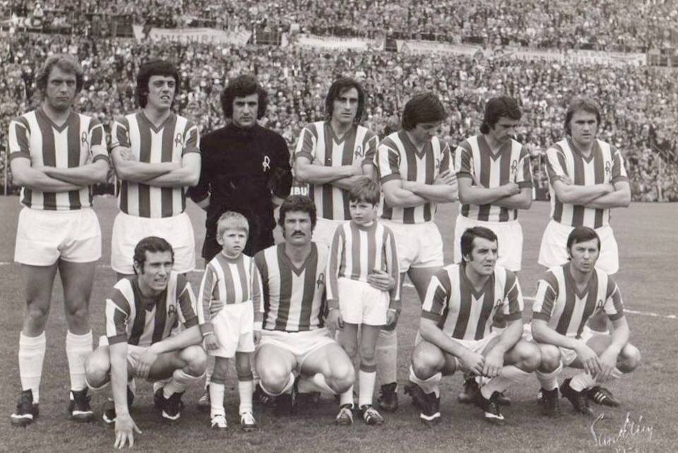 A line-up of A.C. Lanerossi Vicenza in the 1973–74 season. From left to right, standing: U. Ferrante (captain), F. Berni, M. Sulfaro, G. Bernardis, A. Vitali, M. Perego, R. Faloppa; crouched: O. Damiani, A. B. Sormani, G. Longoni, G. Volpato.